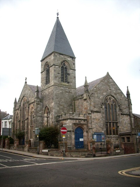 North Berwick Baptist Church This fine old church sits in the heart of the town on the harbour road.